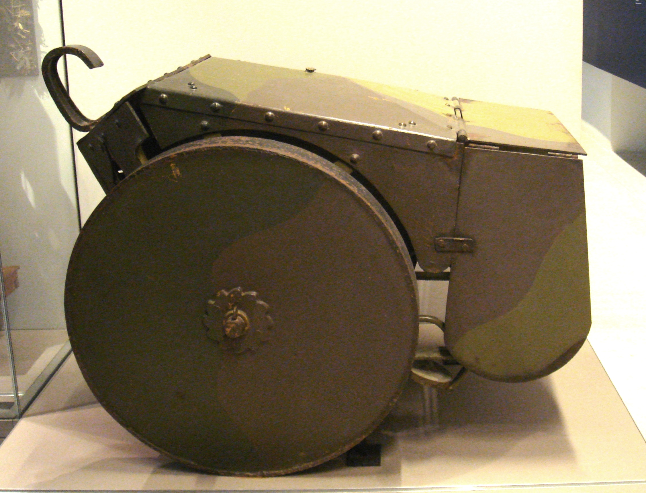 Mobile_personnel_shield, 1915